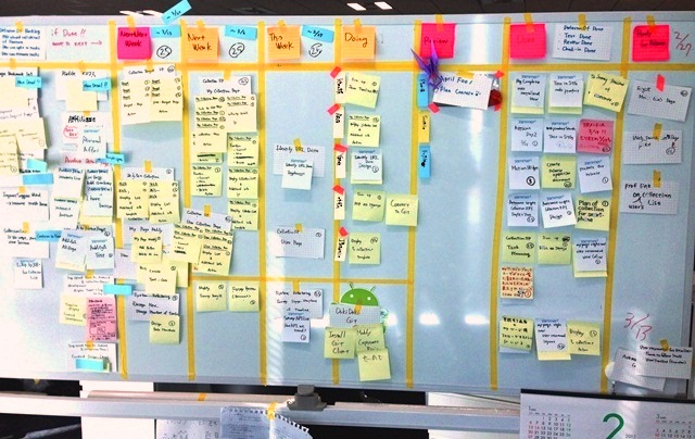 This is lean kanban to manage value stream.